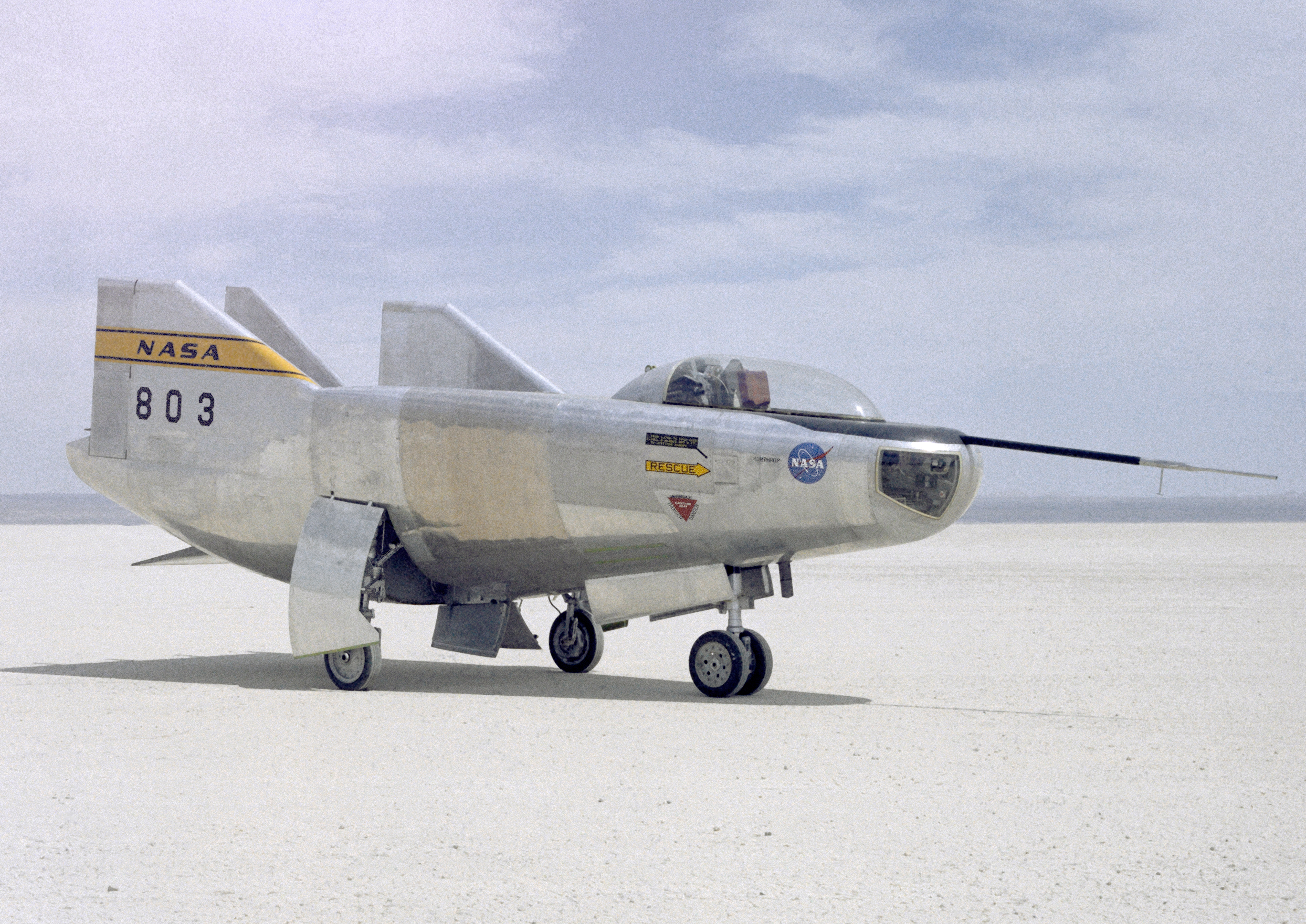 NASA M2-F3 Lifting Body PD-USGov-NASA